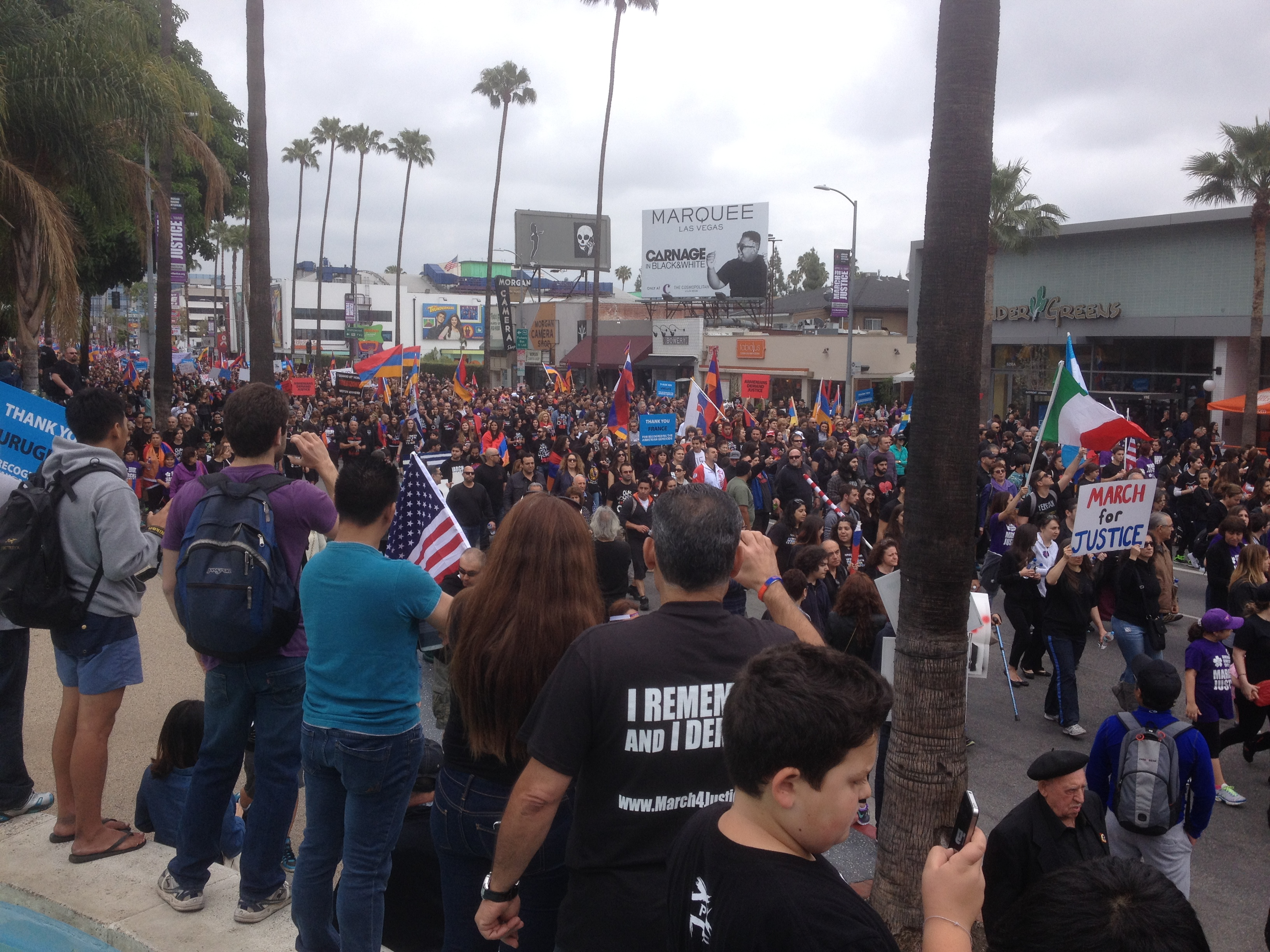 2015 Armenian March for Justice in L.A. (April 2015) to memorial of Armenian genocide in 1915 by Ottoman government (present-day Republic of Turkey)